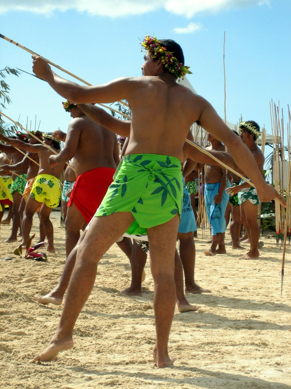 Photo taken by Ian Sewell, July, 2006. Javelin throwing competition at the Heiva Festival in Papeete.